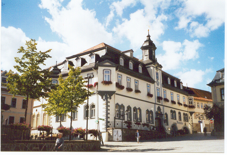 The townhall of Ilmenau, Thuringia (Germany)